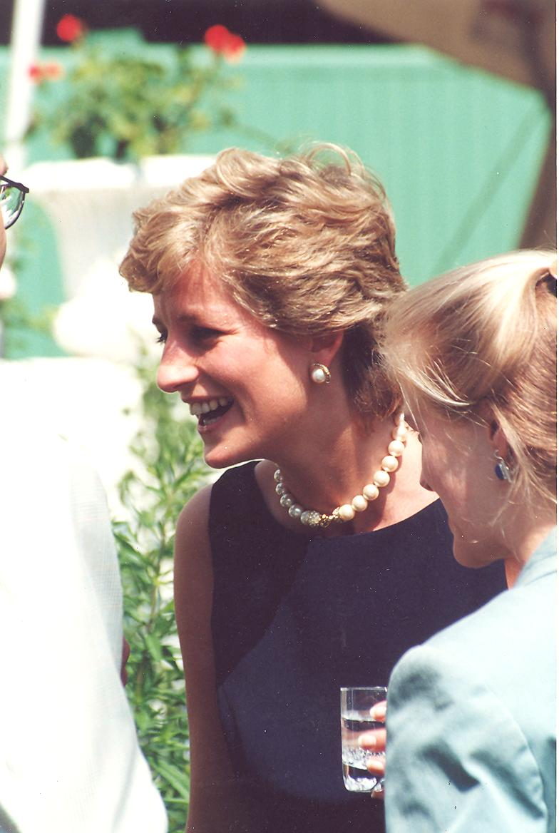 The Leonardo Prize